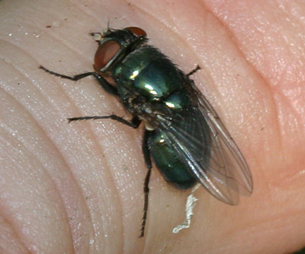 Picture of the species Phormia Regina to be uploaded on the wikipedia page that was created by myself